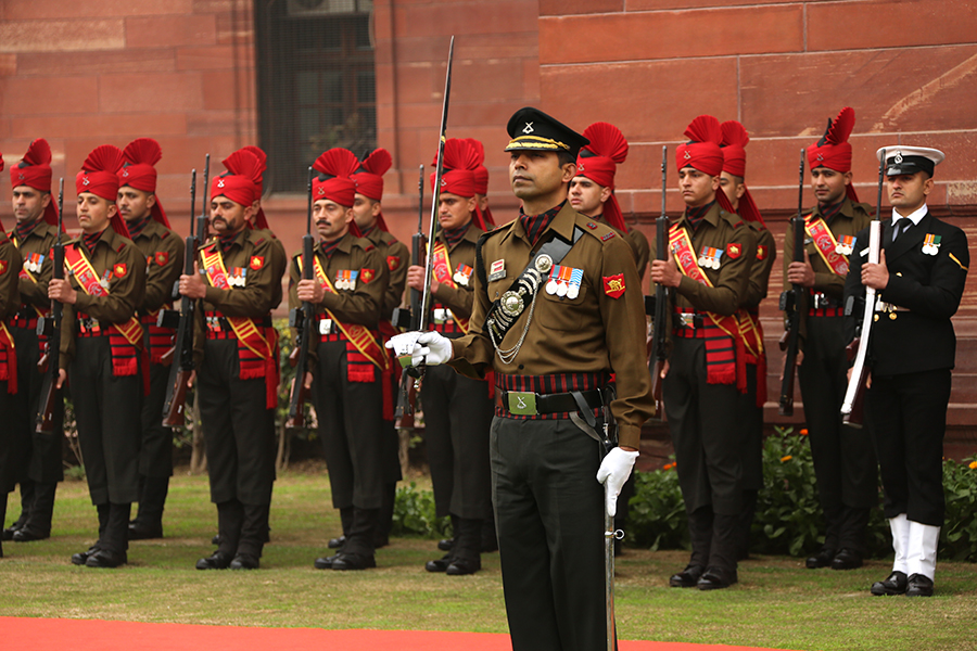 Russian Defence Minister Sergei Shoigu's official visit to the Republic of India